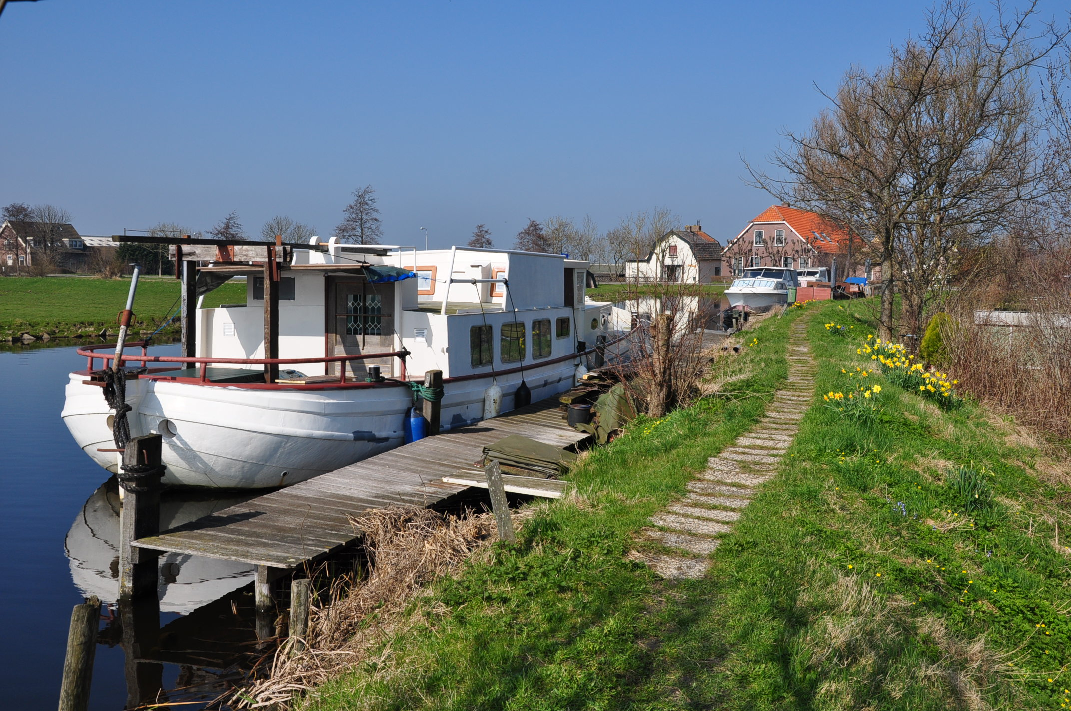 House boat, moored at the small Piest polder in Hoogmade (municipality Kaag en Braassem, Province South-Holland, Netherlands, about 23 km to the north-east of The Hague).